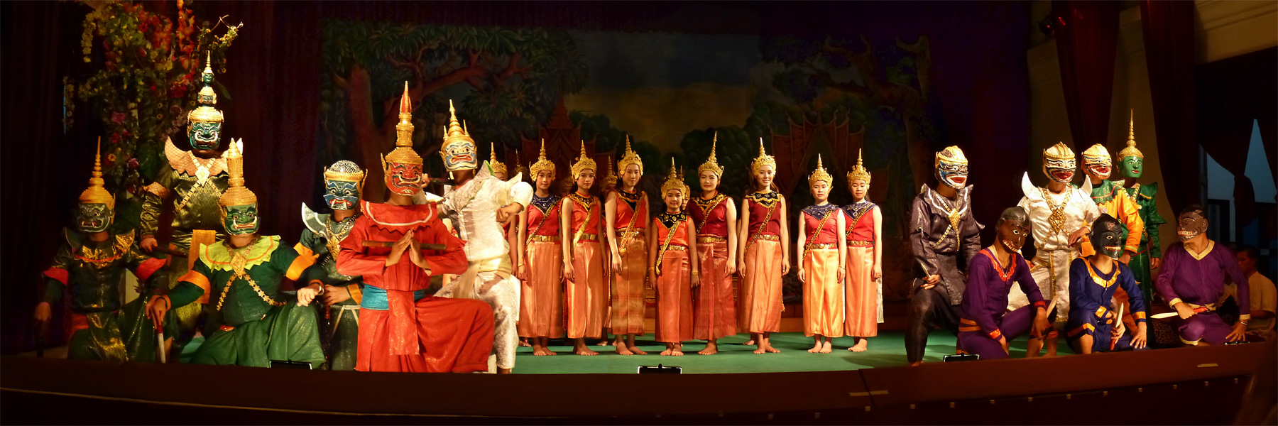 Theatre of the Royal Palace, Luang Prabang, Laos.